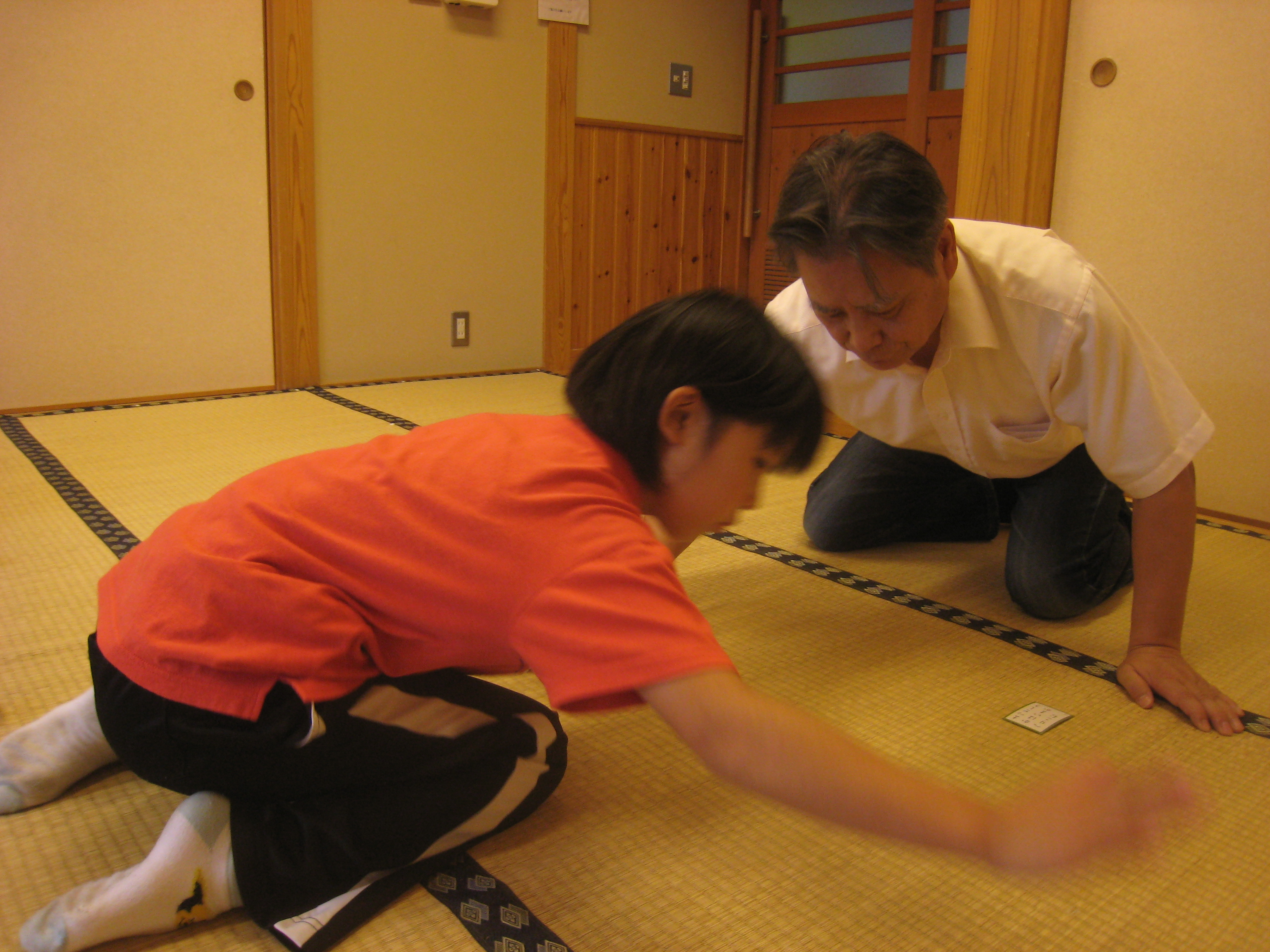 In Karuta, players try to find the last two lines of a poem given the first three lines. It is often possible to identify a poem by its first one or two syllables. The poems for this game are taken from the Hyakunin Isshu and are traditionally played on New Year's Day. 歌番号 16 - 中納言行平 (在原行平)